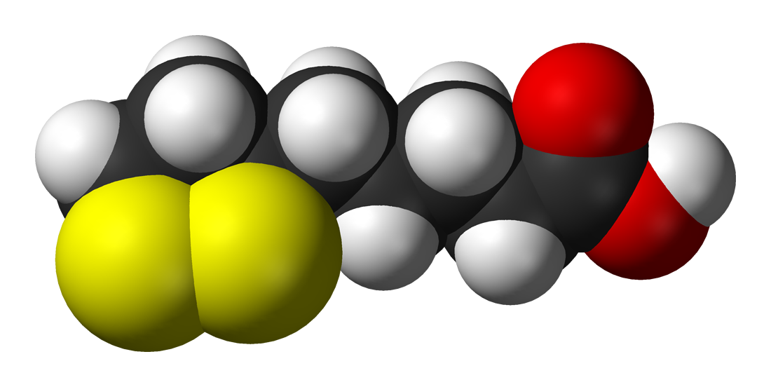 Space-filling model of the lipoic acid molecule